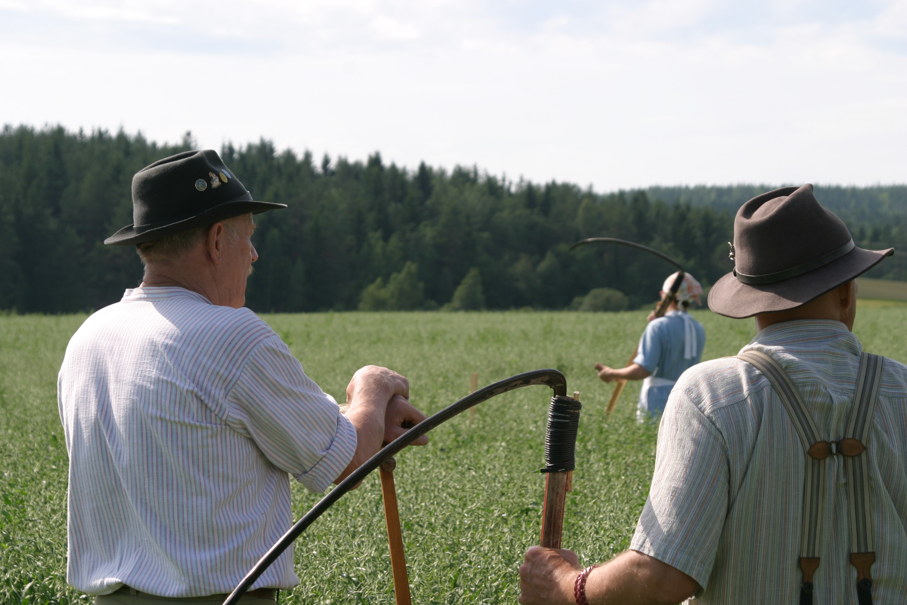 Mowing contest in IskelmäNiityt music festival, Kiuruvesi, Finland, year 2009